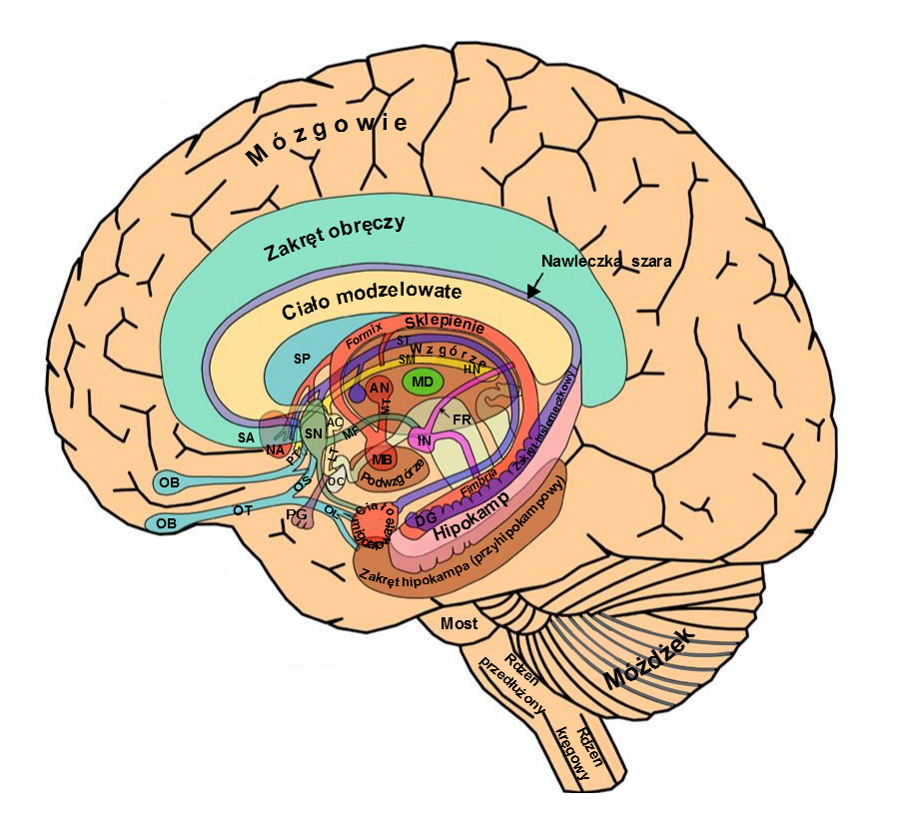 The Limbic System and Nearby Structures - John Taylor